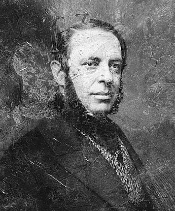 Daguerreotype portrait of French silversmith and industrialist Charles Christophle (1805-1863) by Mathew Brady (1822-1896)